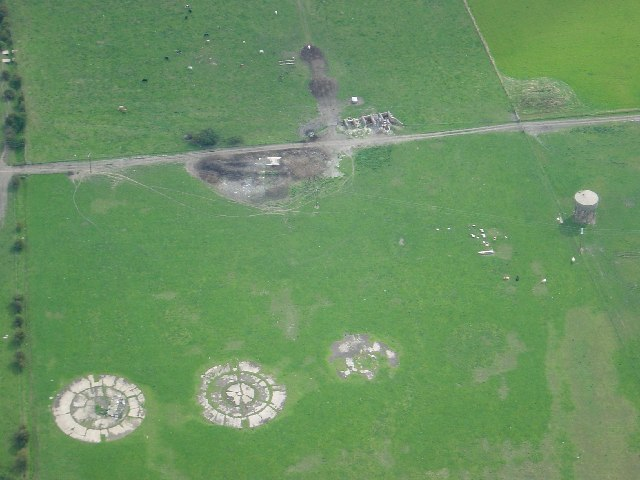 Howden Airship Station, west south west of Spaldington, East Riding of Yorkshire, England.This is all there is to see of the site of an airship station from the 1920s. The circular concrete circles were the bases of gas tanks and water tanks. All traces of the huge hangars have long since disappeared. Two of the eminent engineers who worked on the projects were Barnes Wallis and Nevil Shute.